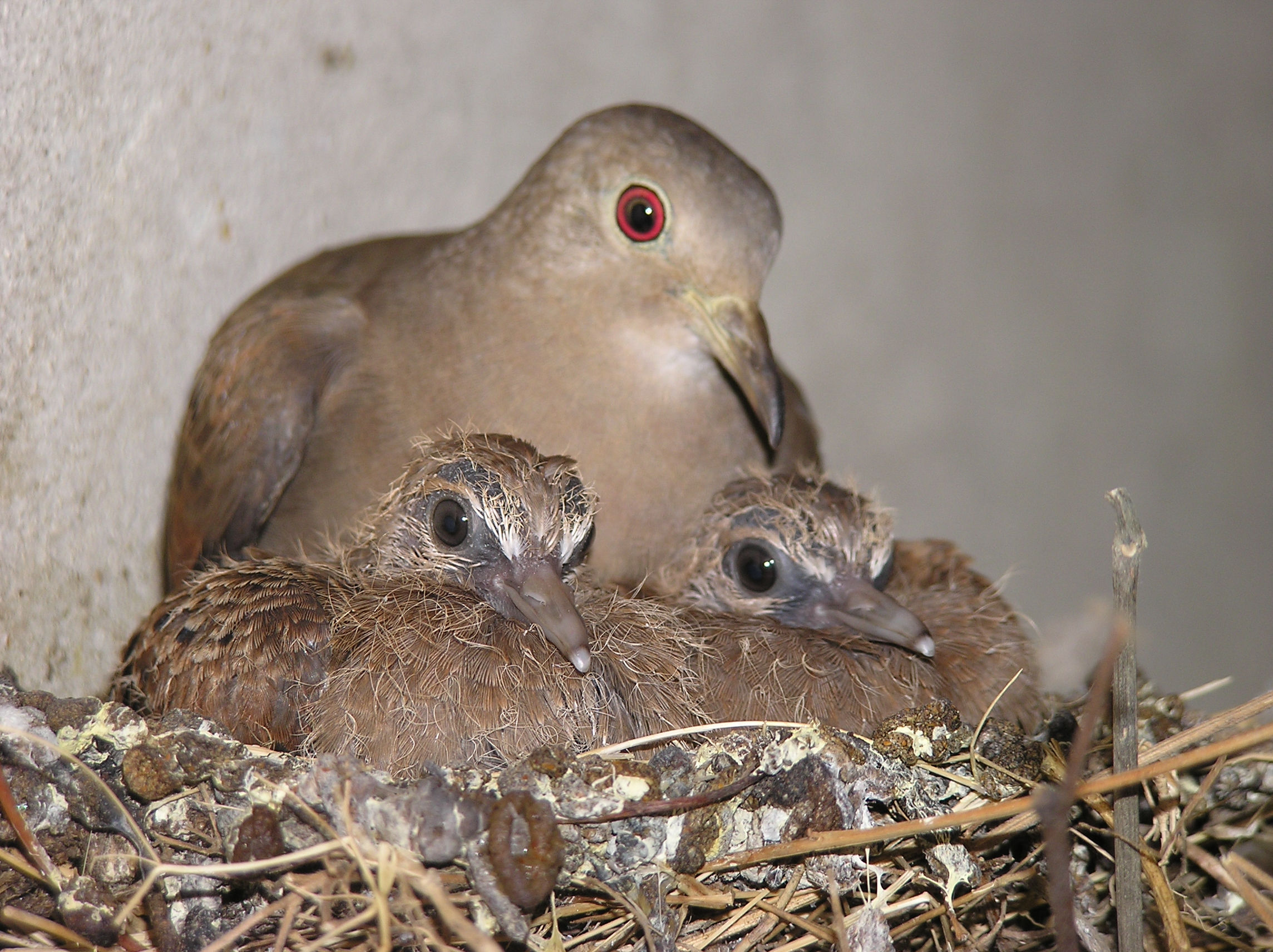 Ruddy ground dove